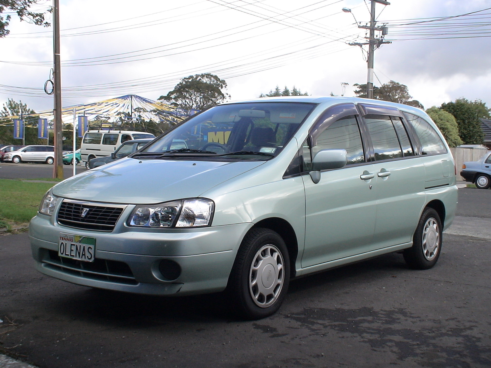 A 1999 Nissan Liberty (known as Nissan Prairie Mk III in Japan) somewhere in the United States.